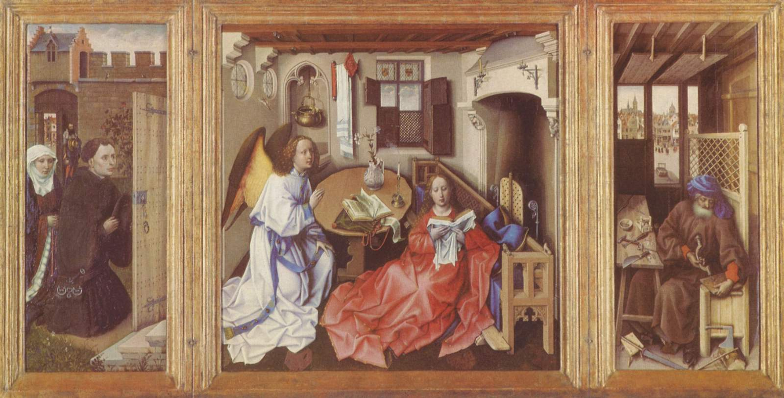 triptych, history of art 1 course 5